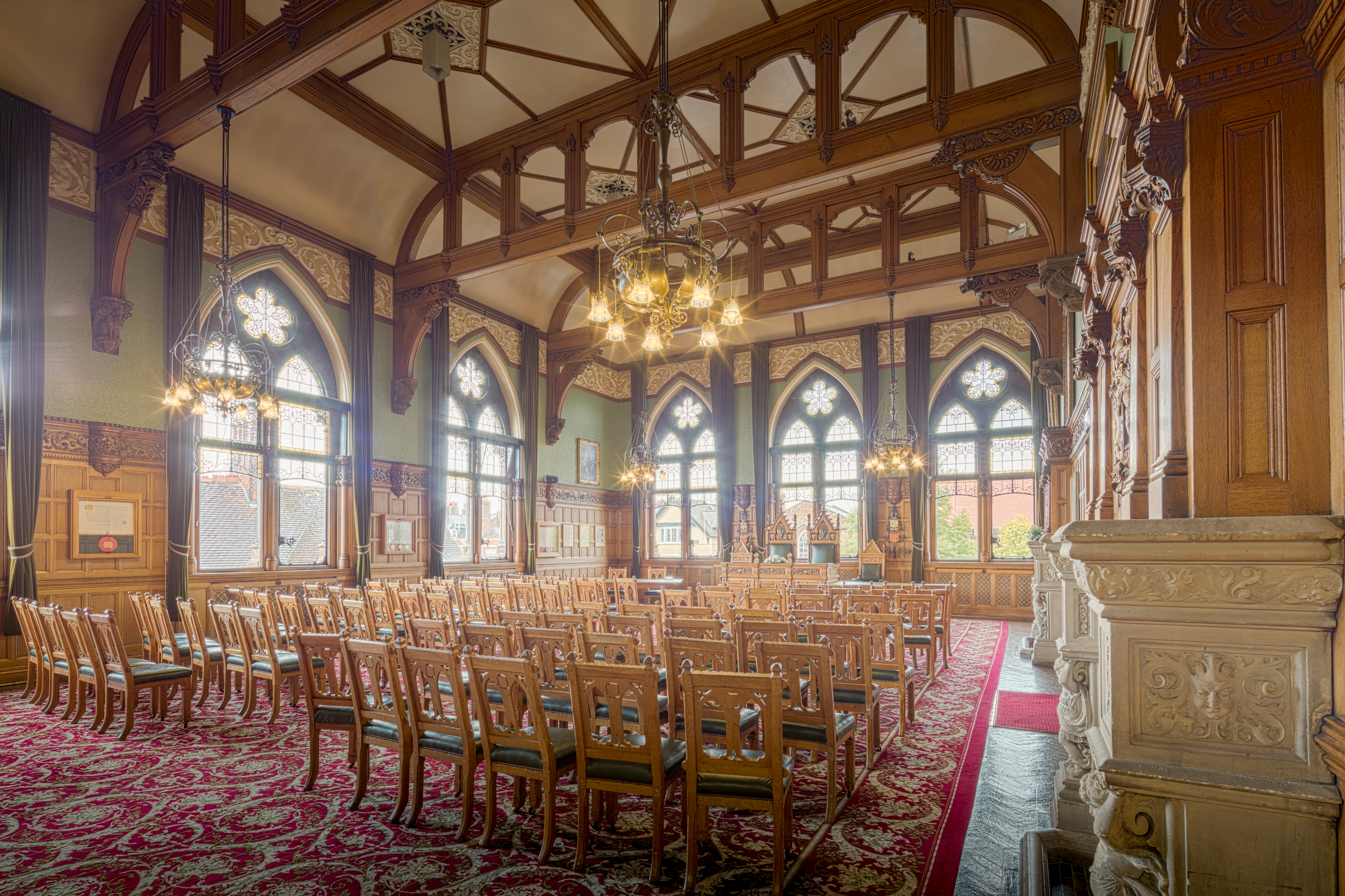 Chester Town Hall Wikidata has entry Q5093729 with data related to this item.